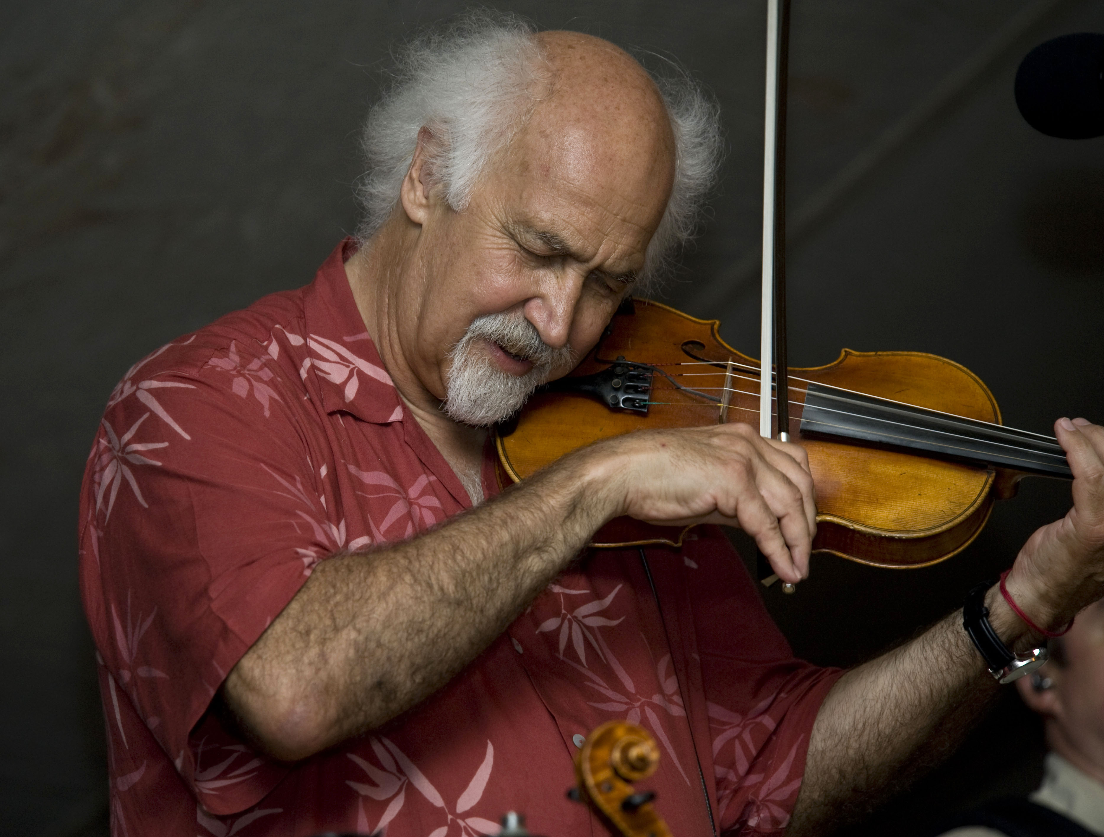 Michael Doucet playing the fiddle at The Dewey Balfa Cajun and Creole Heritage Week at Chicot State. Français cadien: Michael Doucet est après jouer du violon à The Dewey Balfa Cajun et Creole Heritage Week.